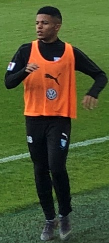 Romain Gall warming up during a game against IF Elfsborg in 2019.